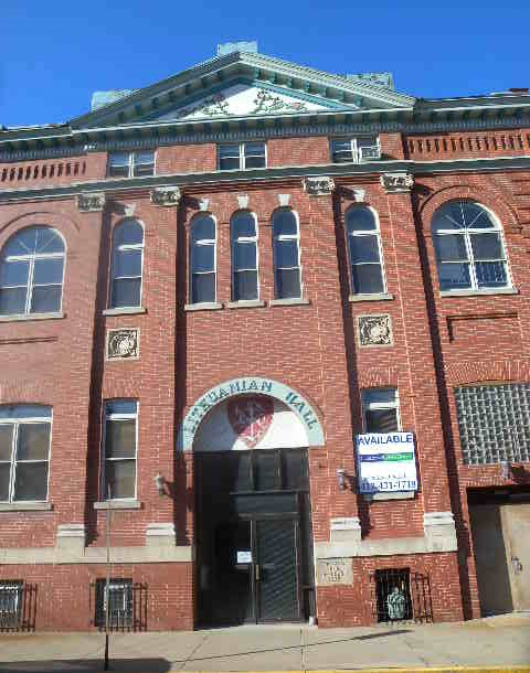 Looking north at Lithuanian Hall on a sunny late afternoon.